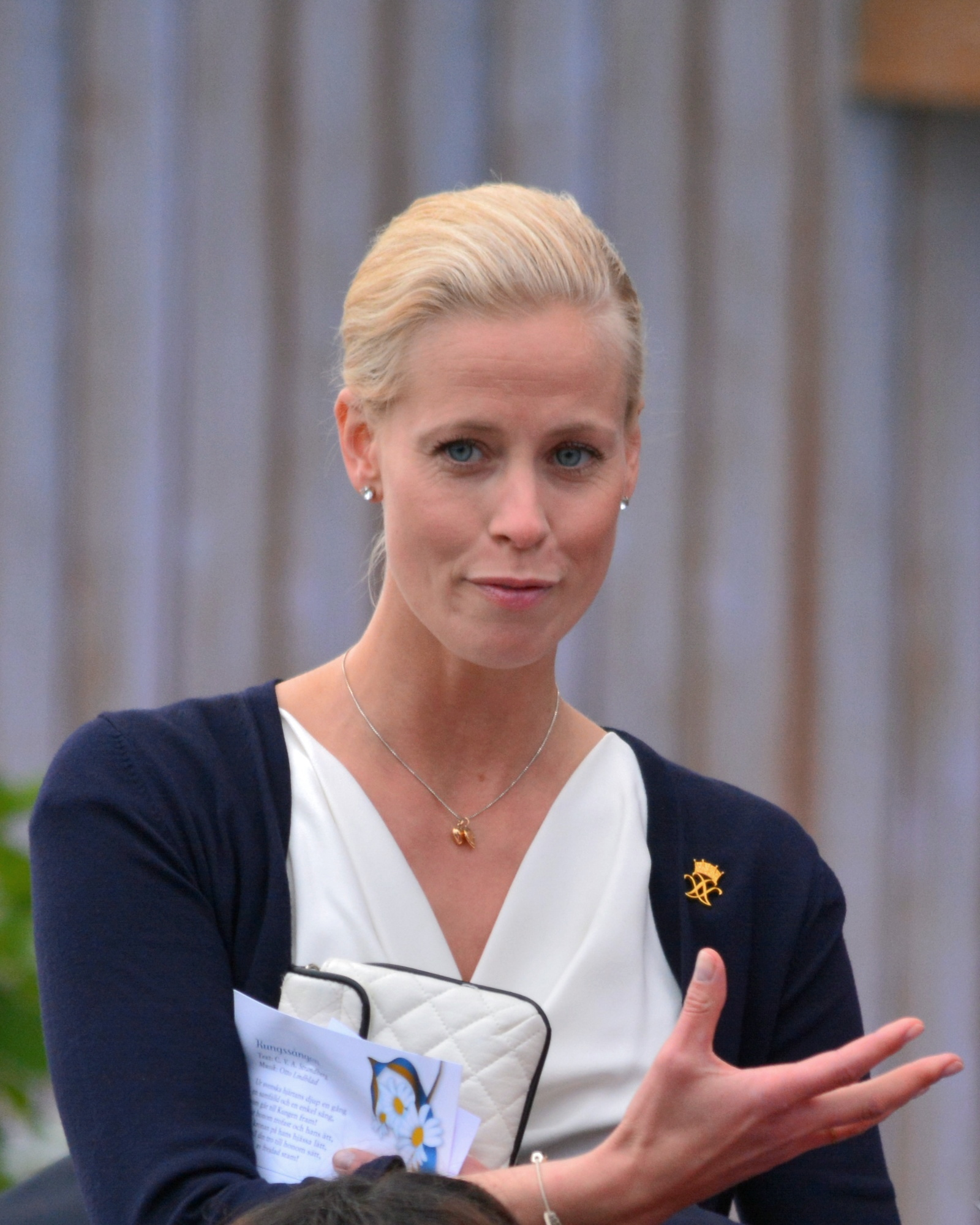 Princess Victoria's hofmarschall Karolin Johansson.